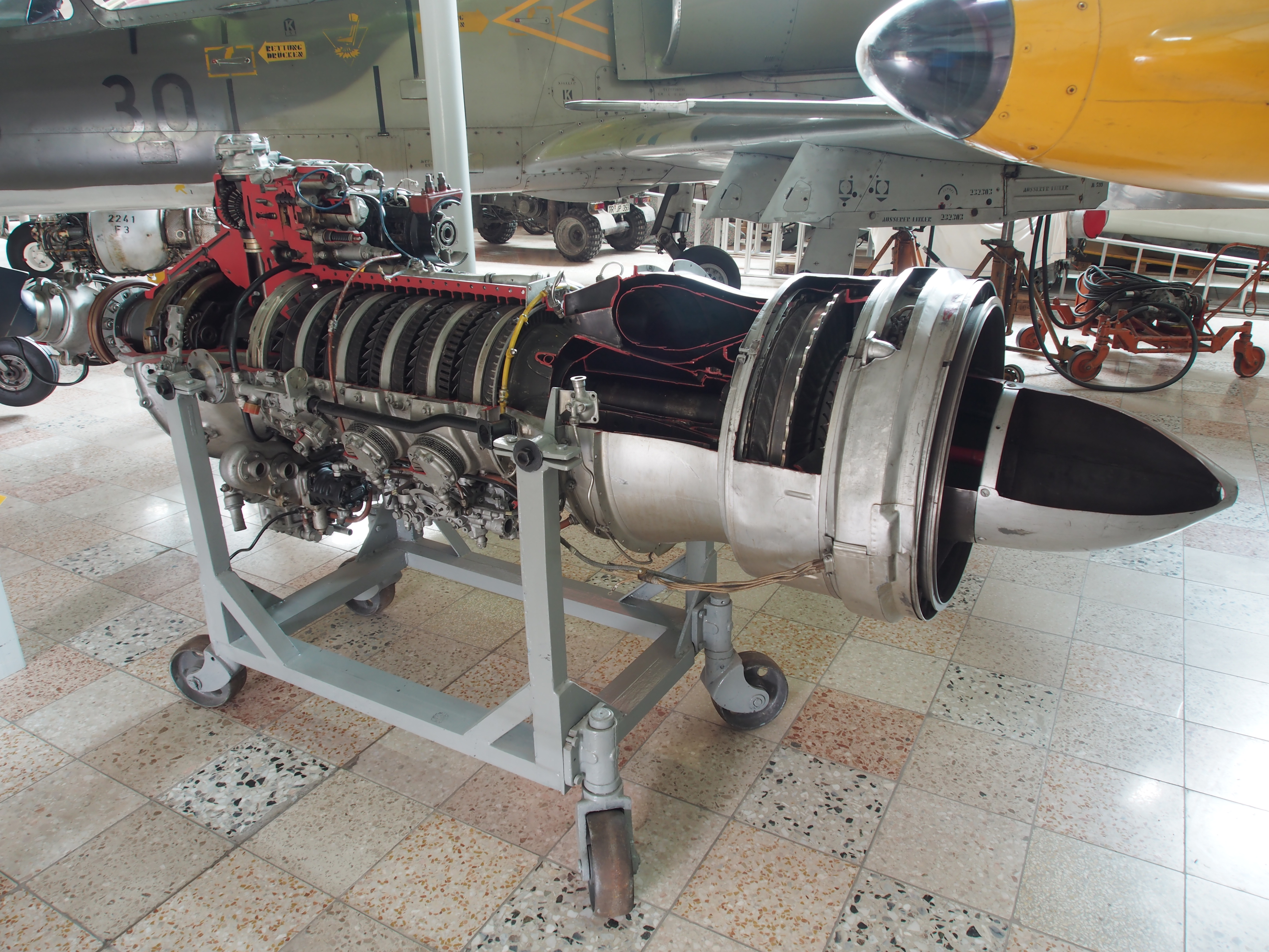 Photographed at Flugausstellung L.+P. Junior, Hermeskeil, Germany.